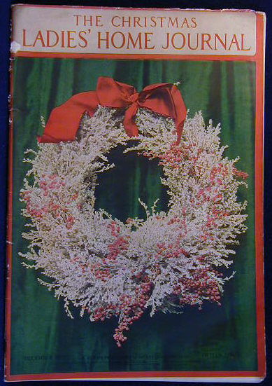 Cover of "Ladies Home Journal", 1906.